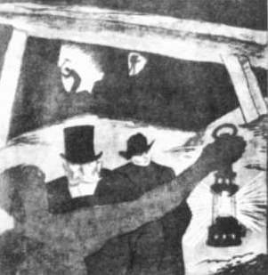 Cartoon by N. Tonitza, published in Hiena magazine